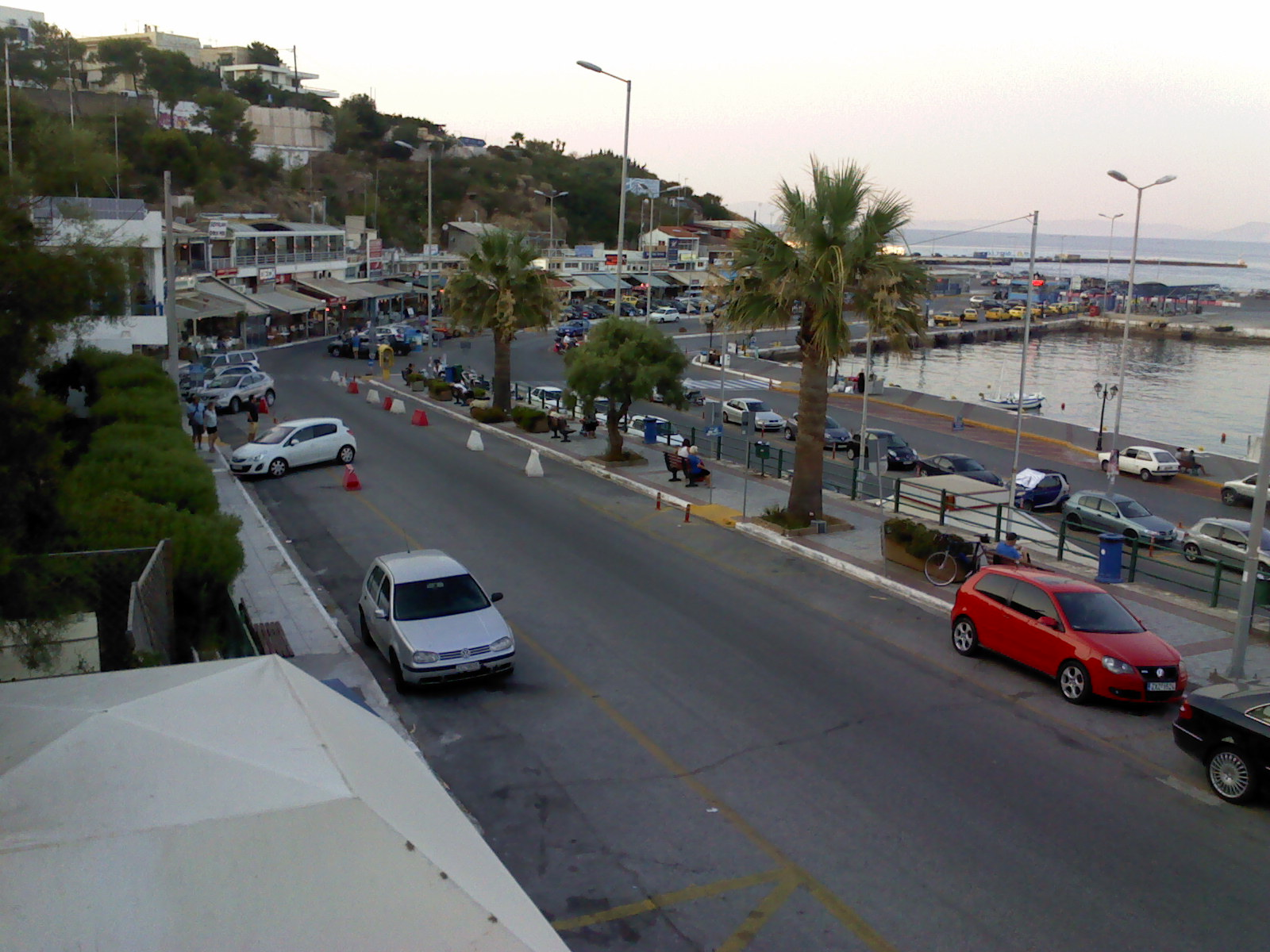 Rafina port